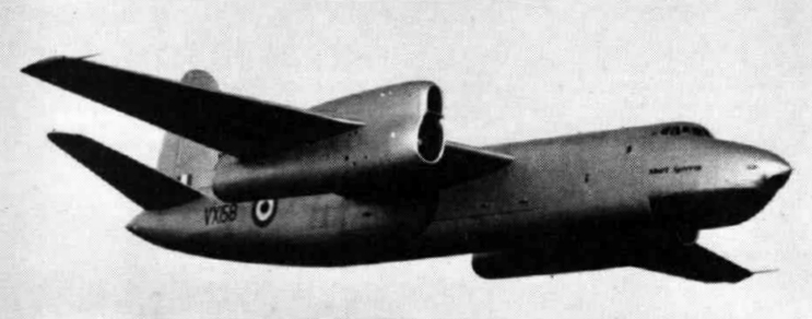 A Short SA.4 Sperrin (serial VX158) at the Farnborough Airshow in 1956.